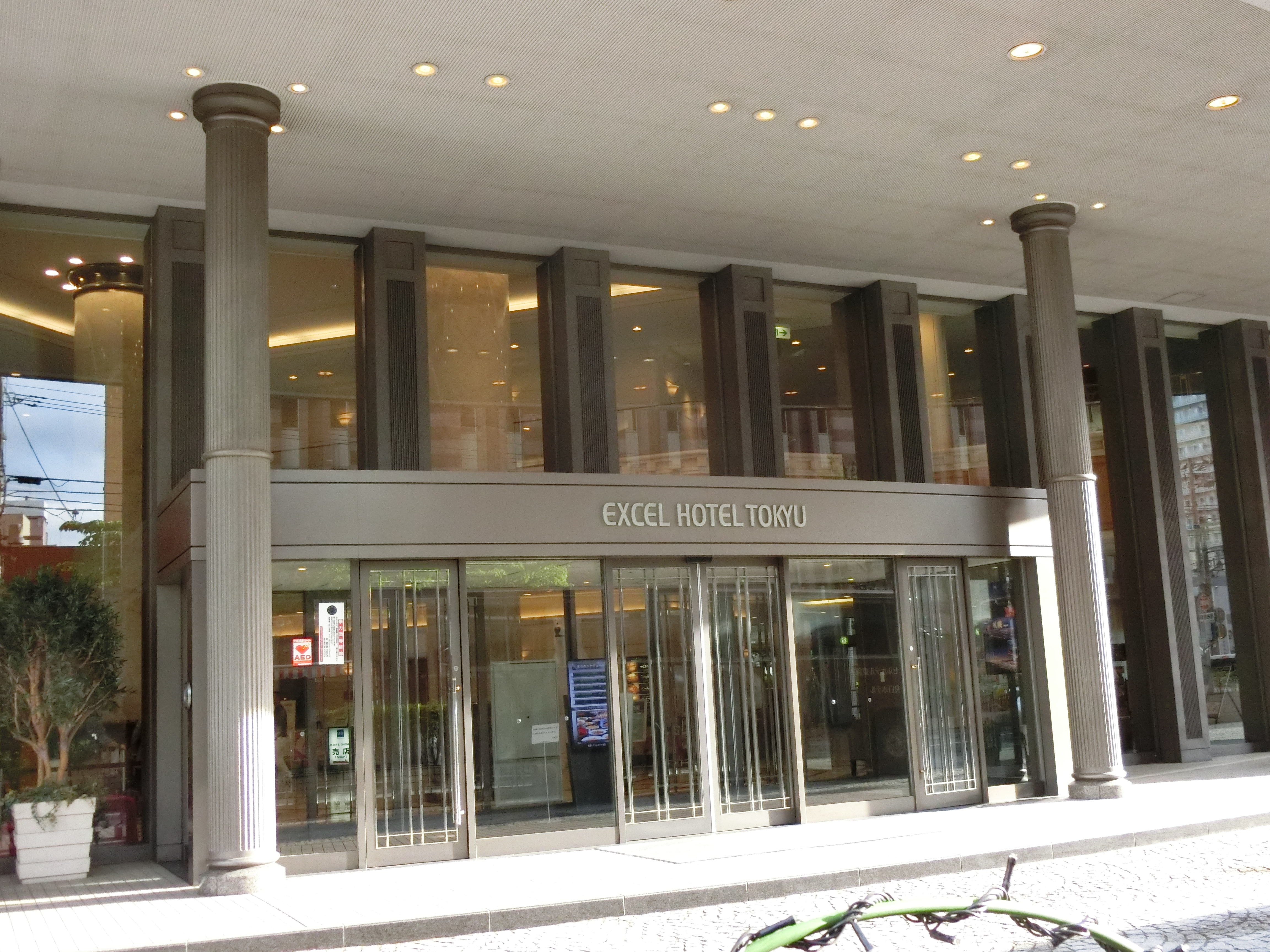 Whole view of Sapporo Excel Hotel Tokyu in South 8 West 5, Central Ward, Sapporo, Hokkaido